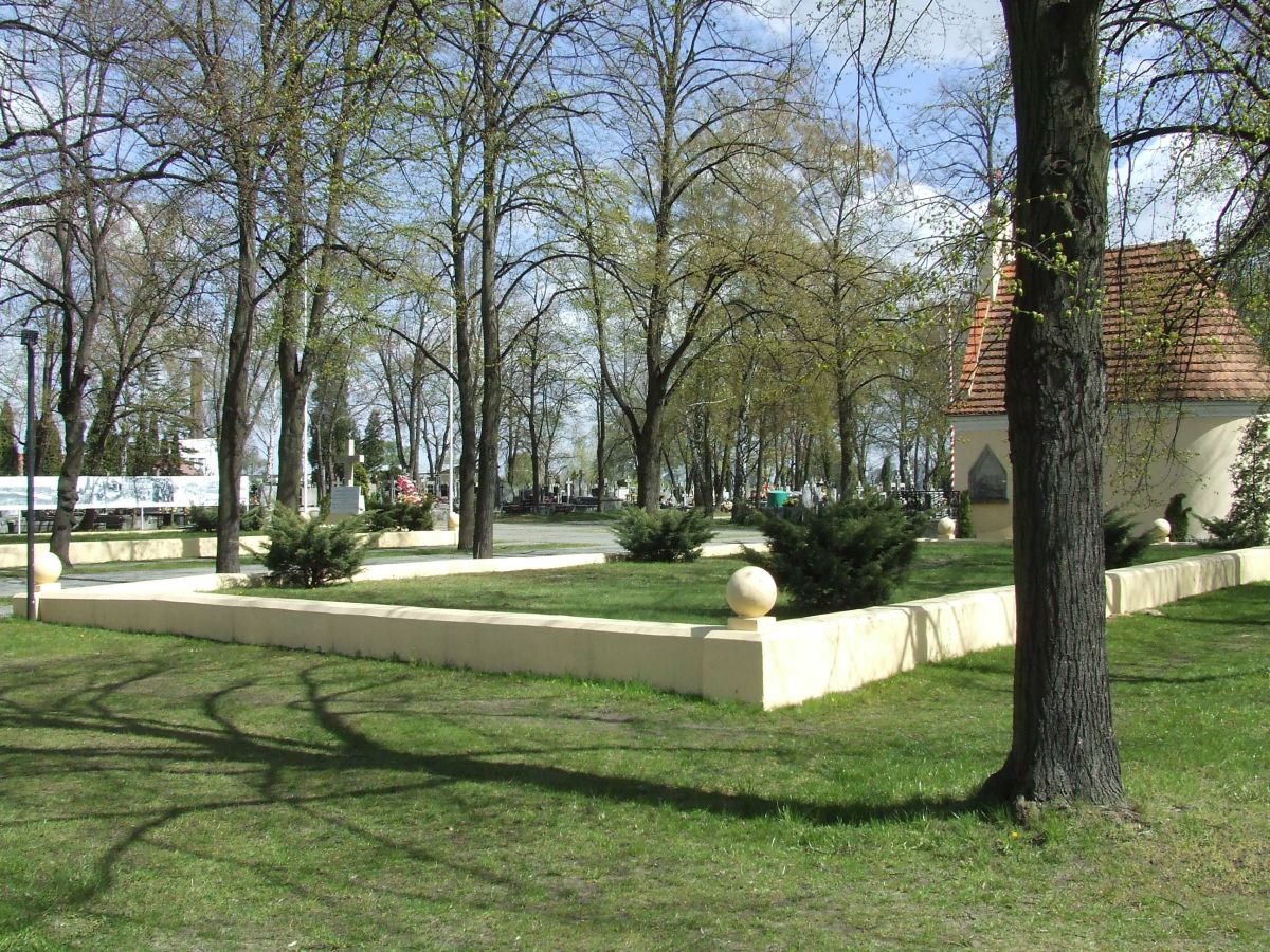 1920 Polish-soviet war cemetery in Radzymin